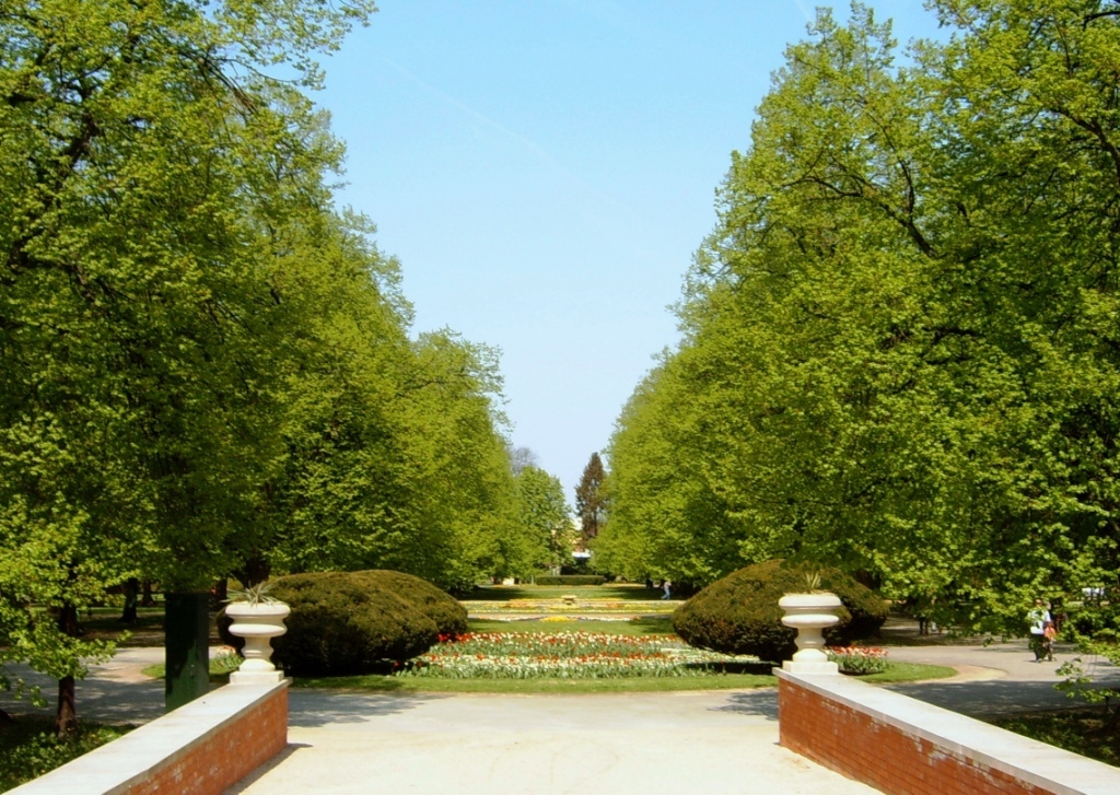 Town Park in Zamość - main avenue behind the entrance gate